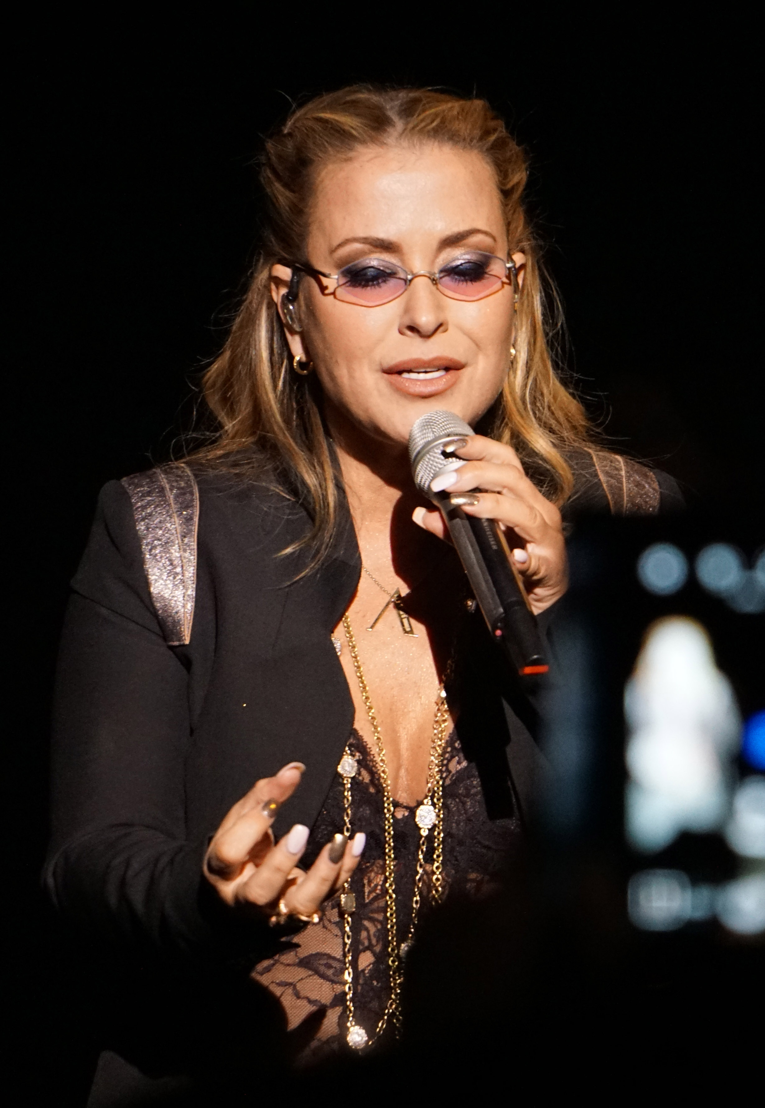 Anastacia performing on The O2 Shepherd's Bush Empire in London